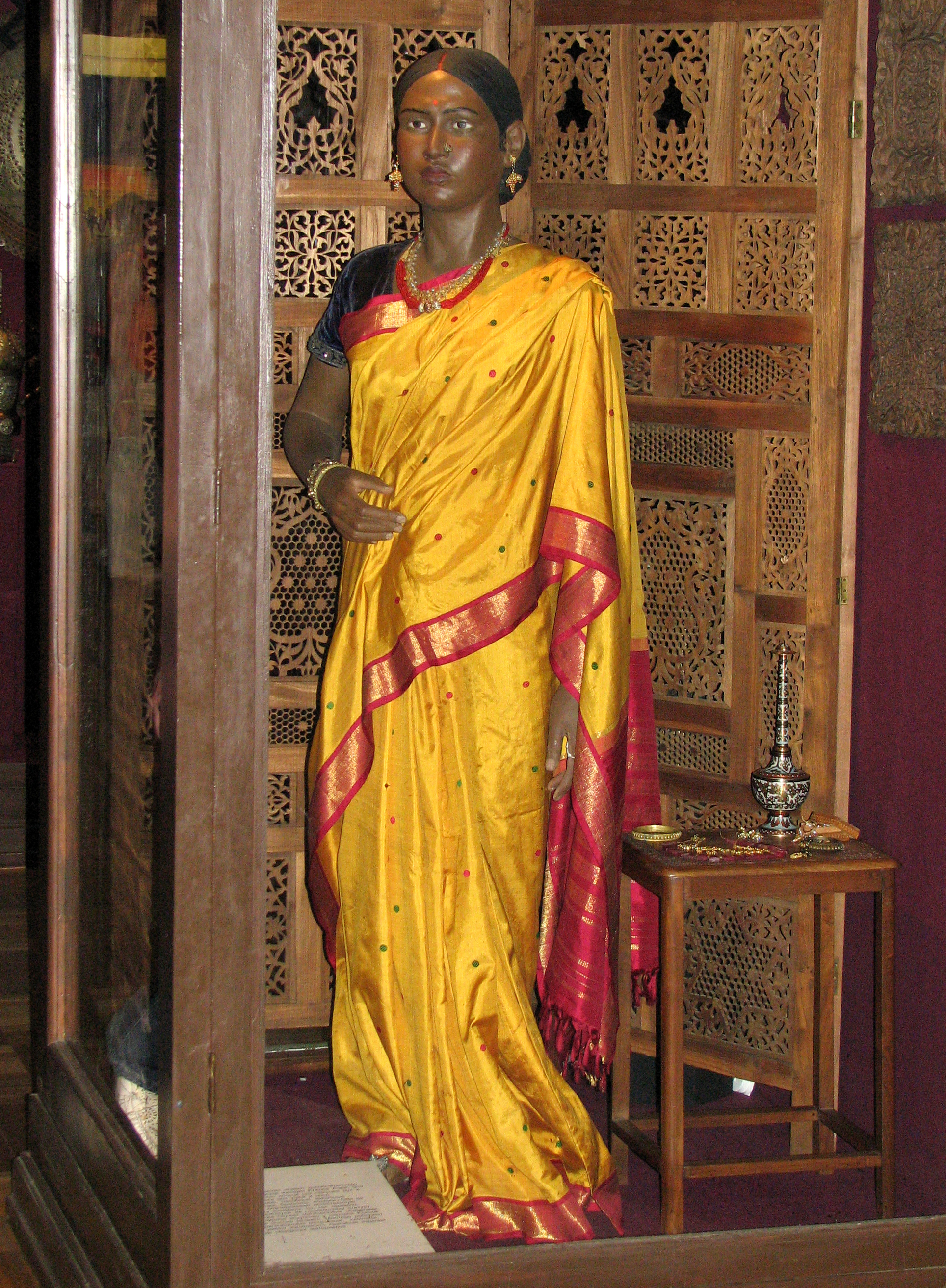 Saint Petersburg. Kunstkamera. Hall of India. Sari and jewels of the prosperous Indian woman.